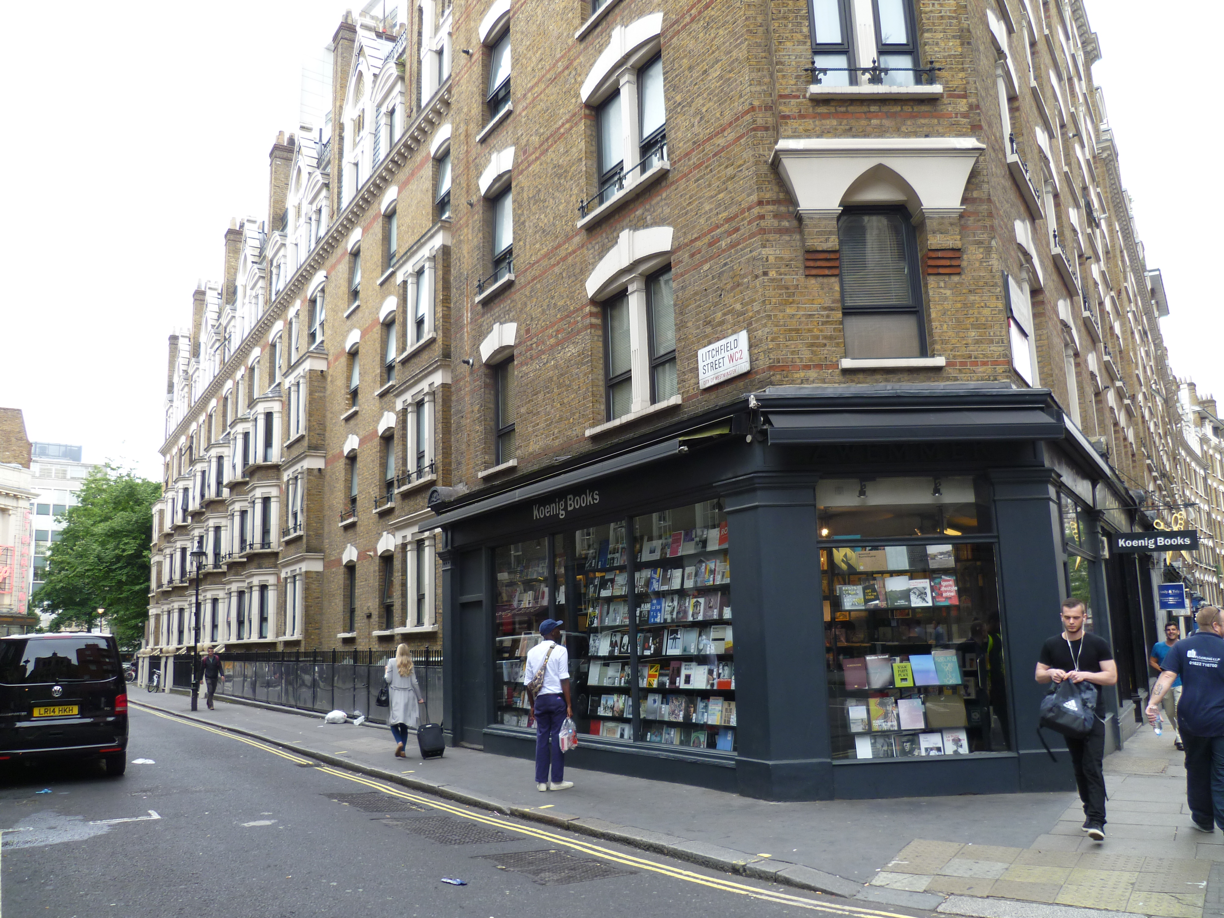 Covent Garden